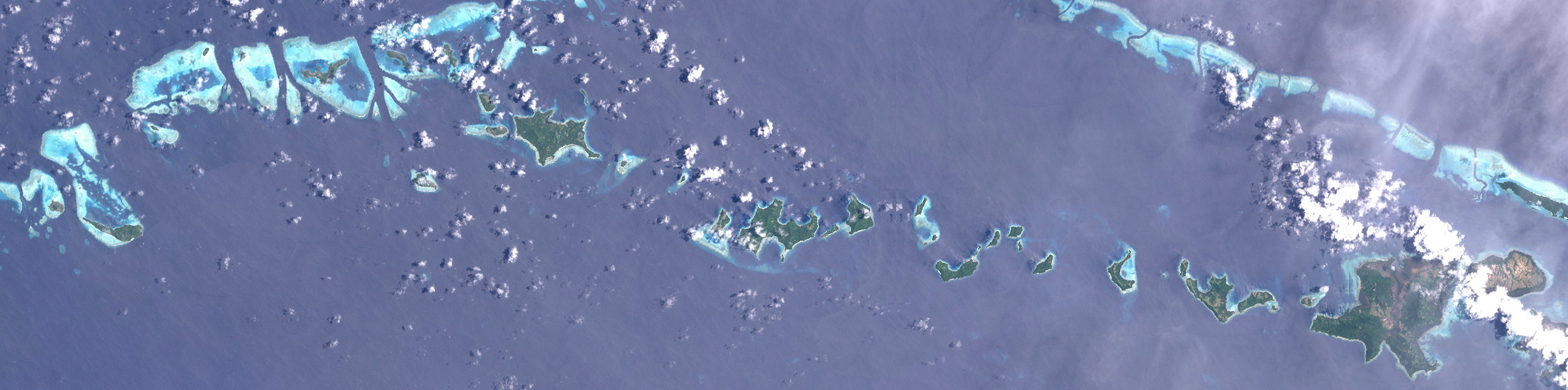 This image (Landsat 7) shows 'The Calvados Chain', an island group in the Louisiade Archipelago, Papua New Guinea.